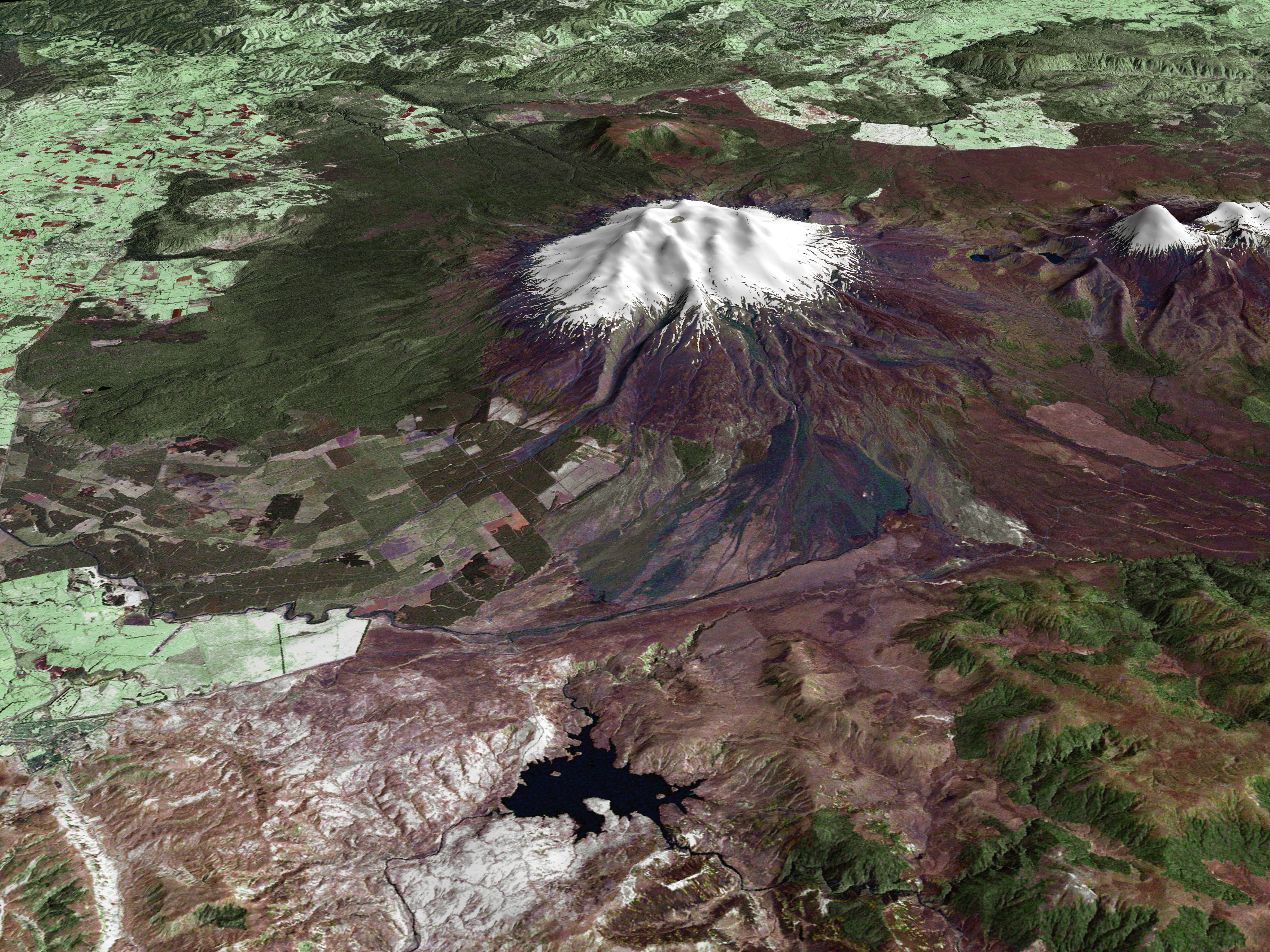 Composite image of Mount Ruapehu, with Hauhungatahi visible beyond. North Island, New Zealand. Image is composed of satellite imagery from Landsat and topography data from the Shuttle Radar Topography Mission aboard the Space Shuttle Endeavour.